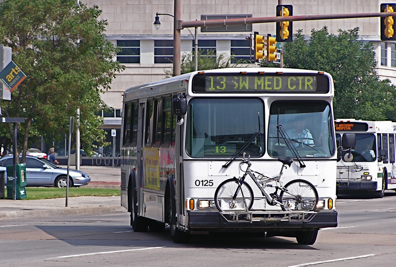 METRO transit bus, downtown Oklahoma City, 2007. Metro Transit was renamed Embark in 2014.